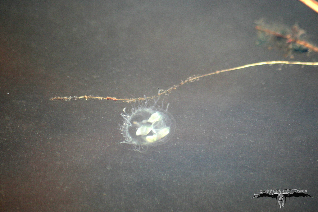 A freshwater jellyfish Craspedacusta sowerbyi in farm pond in Upstate New York.